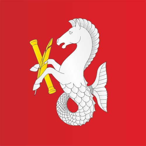 Flag (Standard) of the Macedonian Heraldry Society